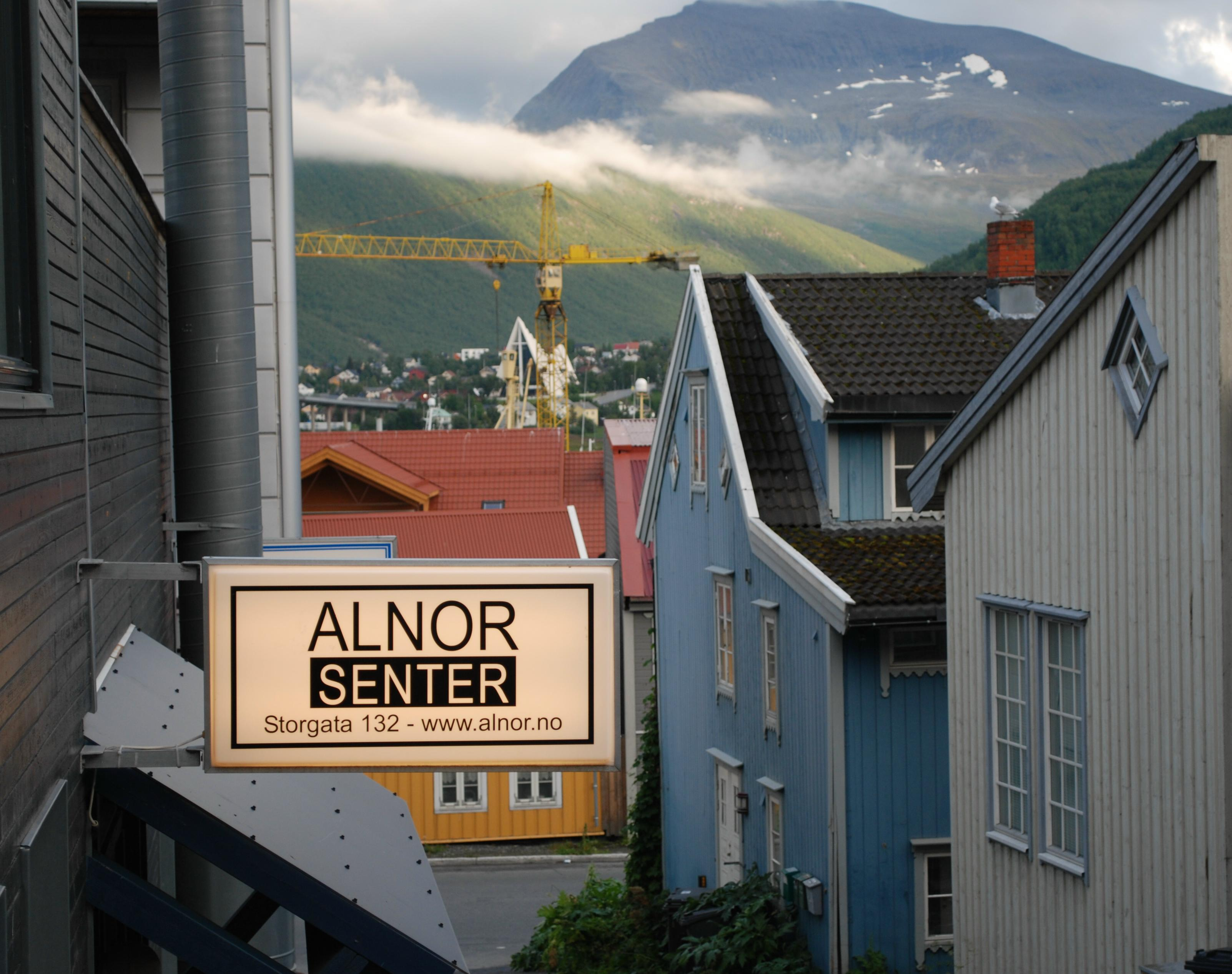 Basement mosque in Tromsø, Norway, said to be the world's northernmost